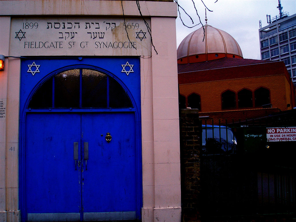 Fieldgate Street Great Synagogue (foreground), East London Mosque (background)Synagogue and Mosque, Whitechapel, London